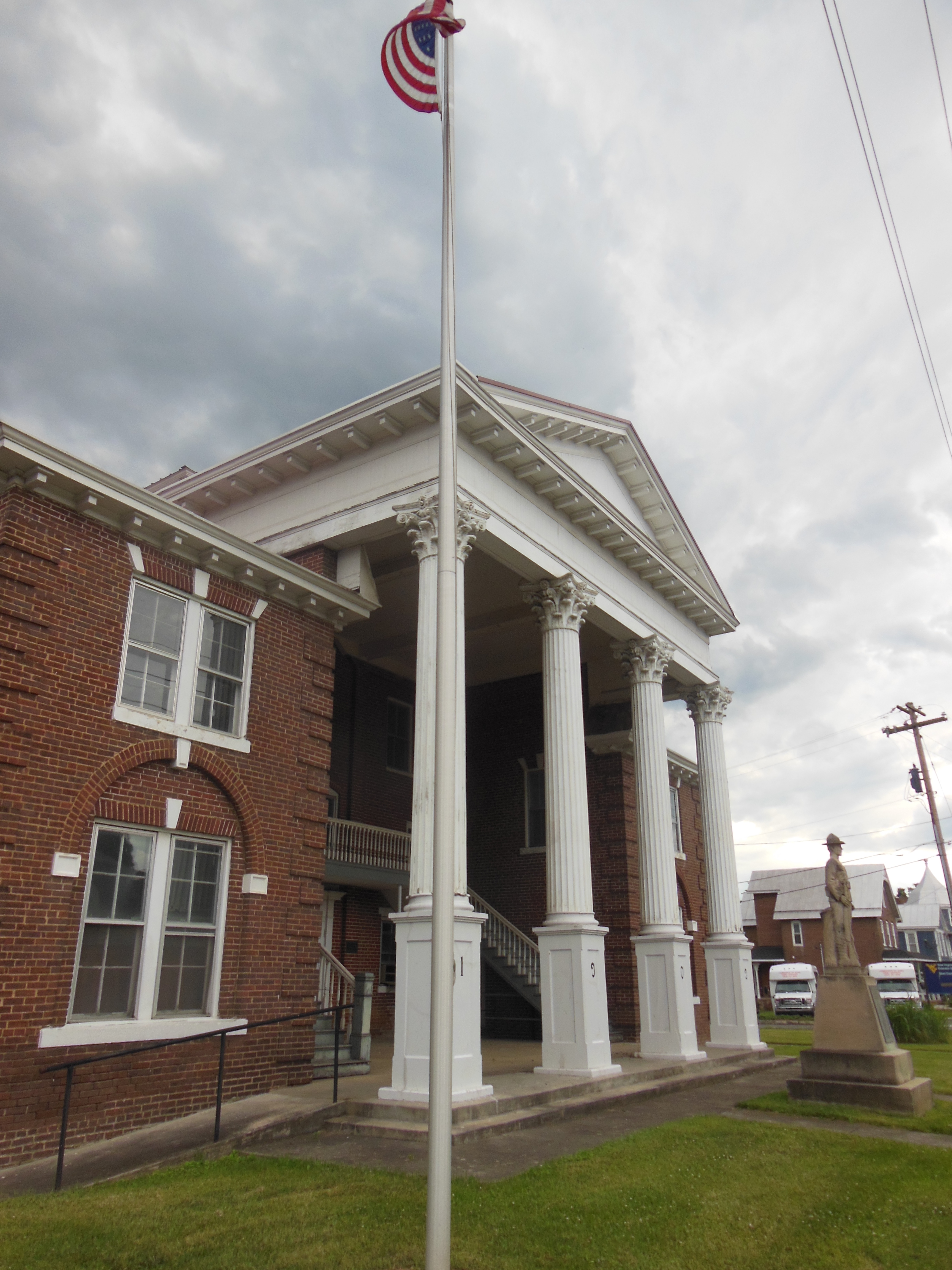 Grant County Courthouse